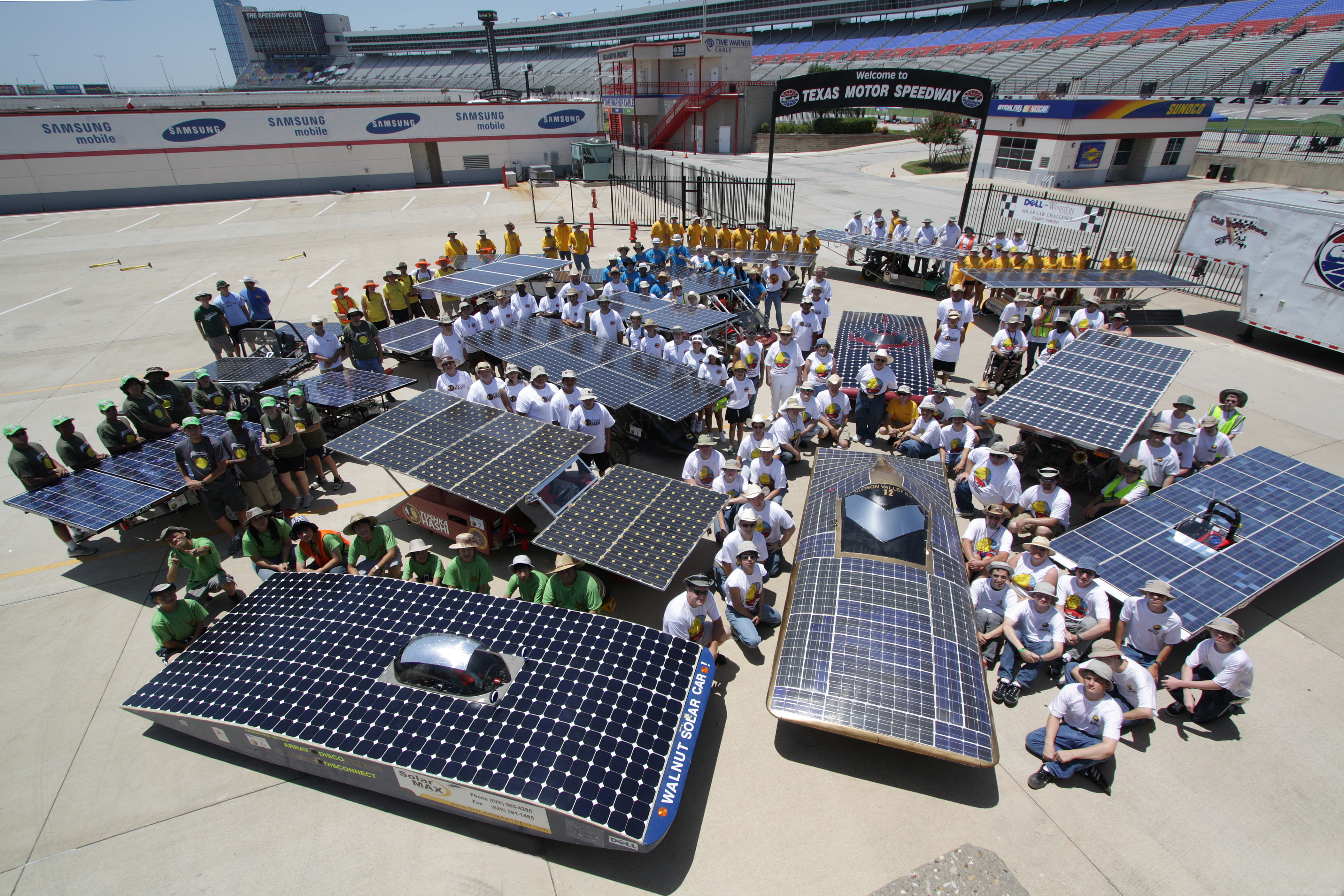 Photo from the 2009 Solar Challenge at the Texas Motor Speedway